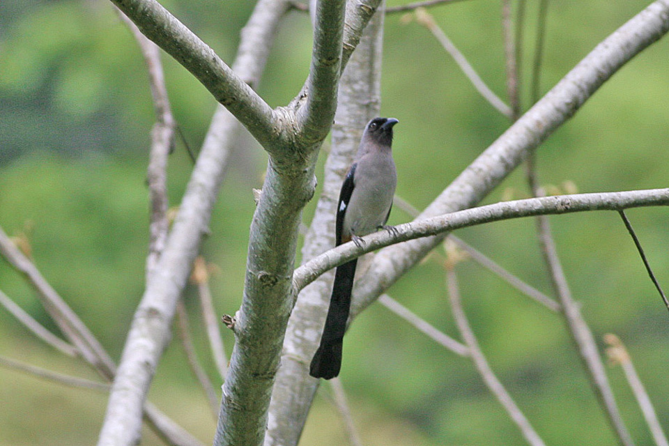 Grey Treepie (Dendrocitta formosae). Punahka to Jigme Dorji National Park, Bhutan